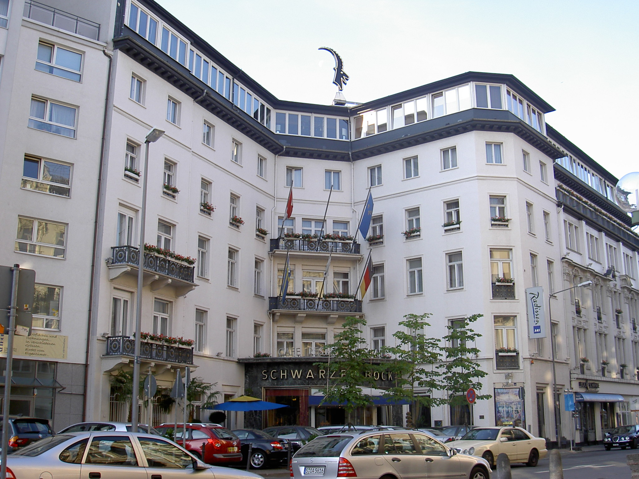 Hotel Schwarzer Bock, Wiesbaden, Hessen, Germany